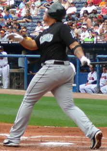 I took this photo on June 5, 2007 07:57, 8 June 2007 . . Chrisjnelson . . 222×312 (137,023 bytes)